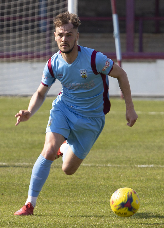 Brandon Goodship playing for Weymouth in April 2019